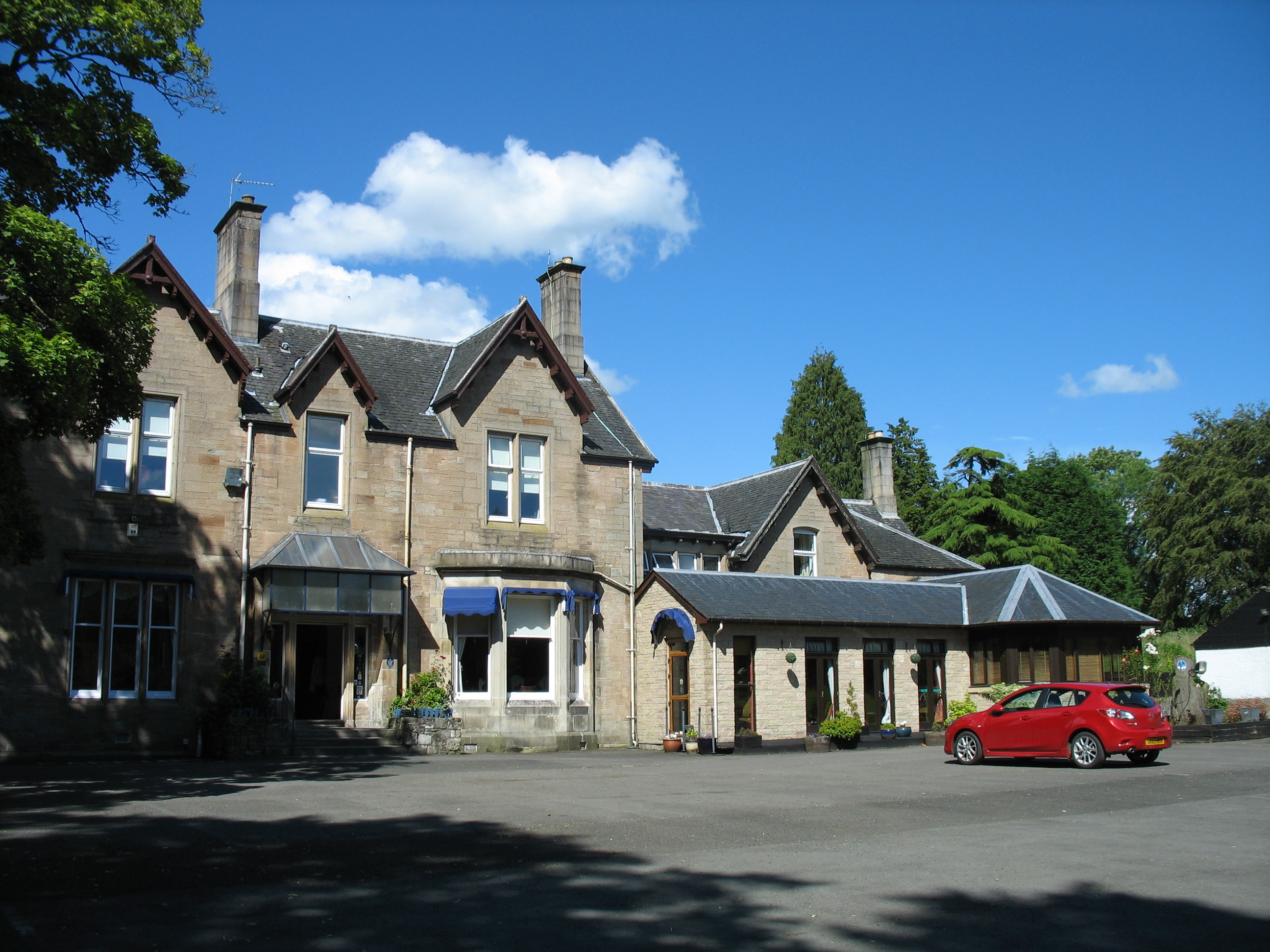 Picture of the front aspect of Strathblane Country House including the Country Club Restaurant taken from the car park